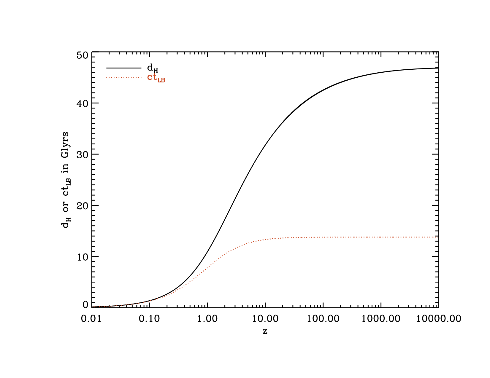 Redshift distance relation